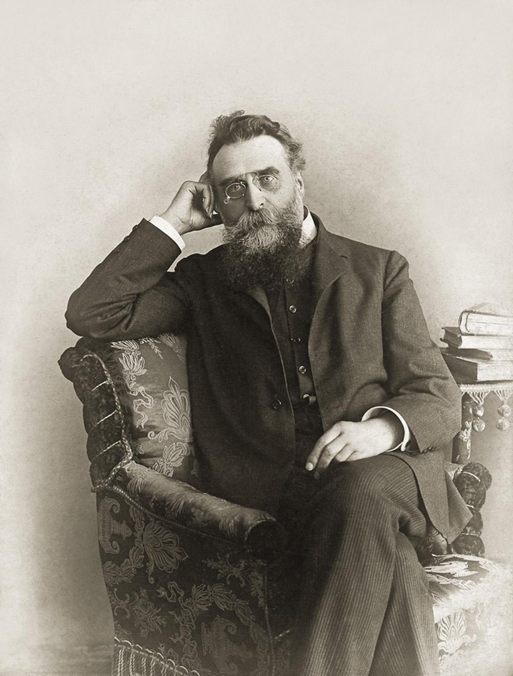 Dr. Jonas Basanavičius. One of the signatories of Lithuanian independence act.